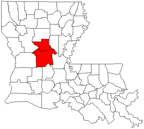 Map of Louisiana highlighting the Alexandria Metropolitan Statistical Area; created with the GIMP. Made by User:Acntx.